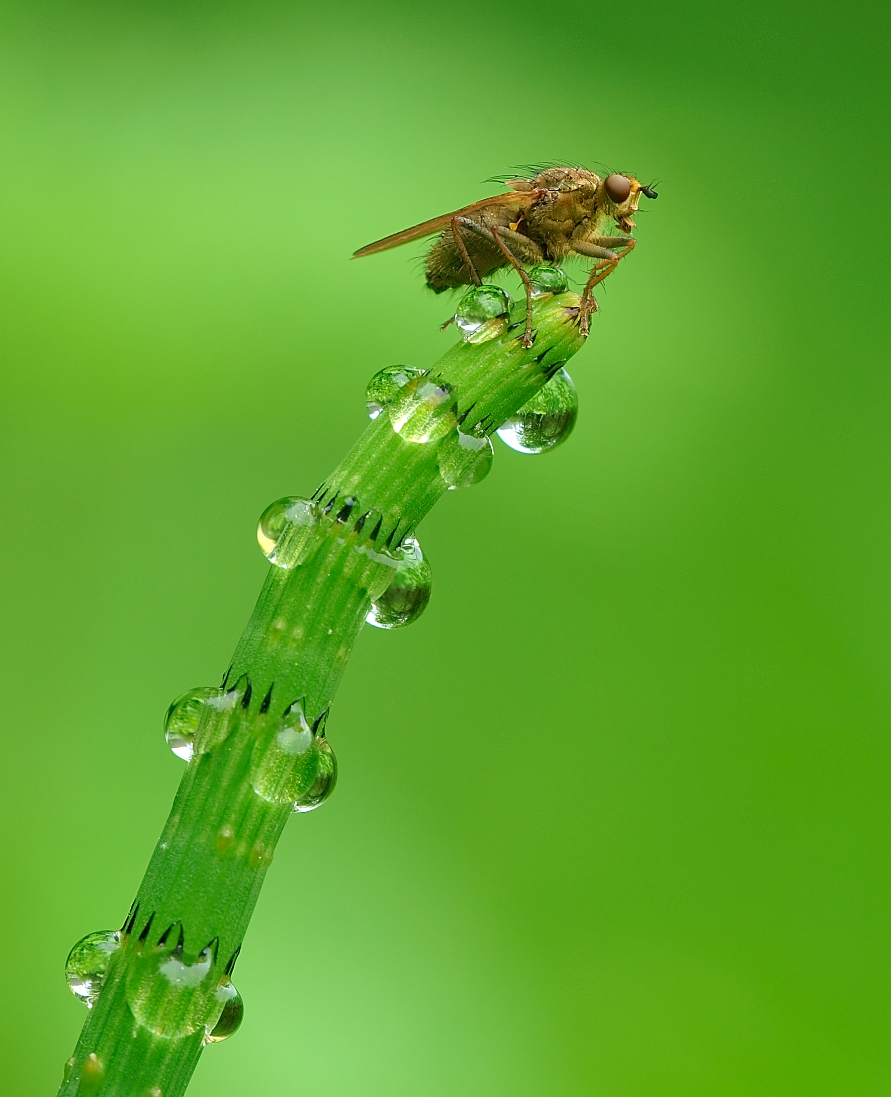 Scatophaga stercoraria